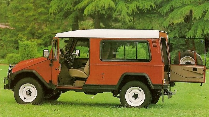 UMM alter 2